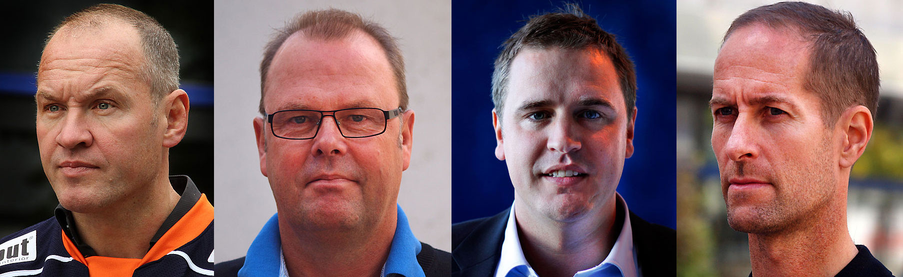 Janne Karlsson, Per-Erik Johnsson, Dan Tangnes and Anders Forsberg: the four head coaches that were fired during the 2012/2013 Swedish Elitserien hockey season. Based on their portraits on wp, all of them shot by me.